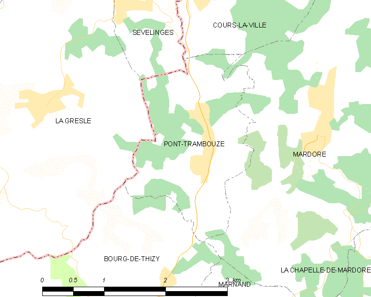 Map of French municipality